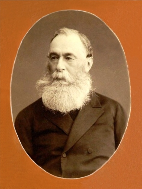 Boris Chicherin (1828—1094) — russian jurist, philosopher, historian and publicist.